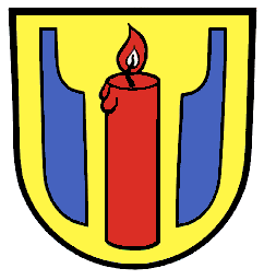 Coat of arms of Betzweiler-Wälde in Loßburg